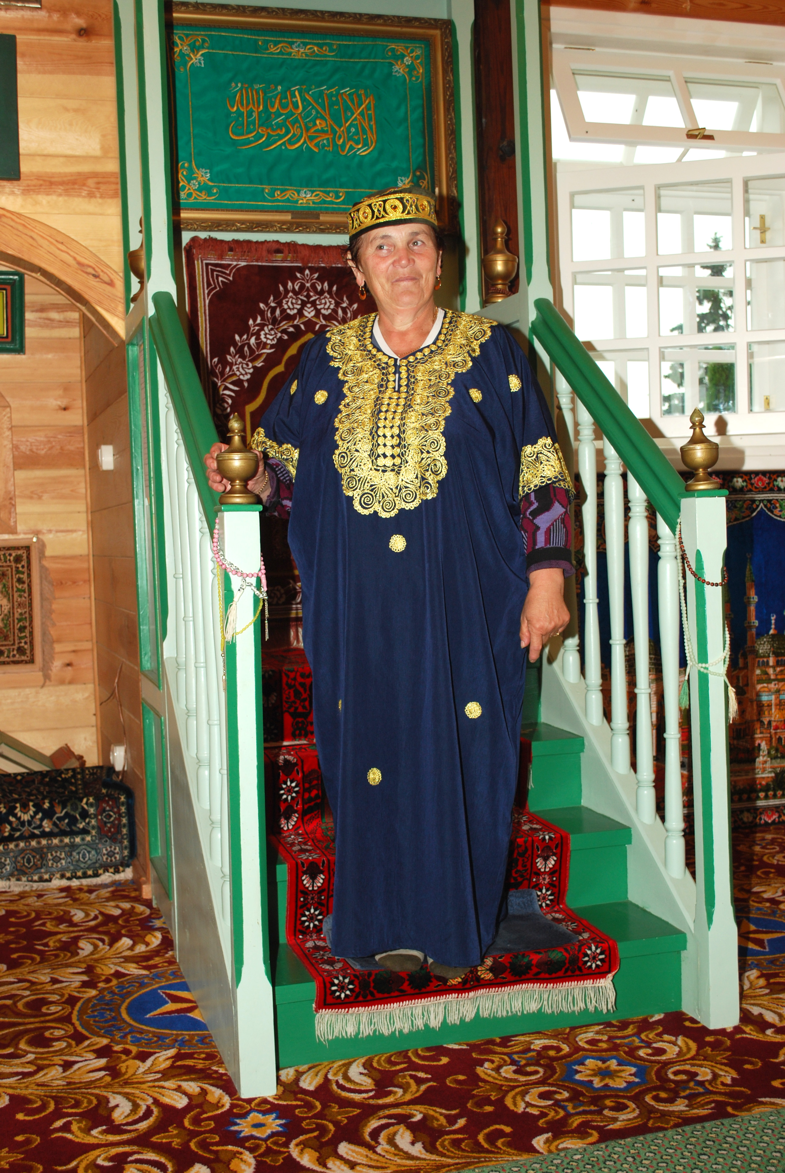 This photo from Podlaskie Voievodeship was taken during Polish Wikiexpedition 2009 set up by Wikimedia Polska Association. The making of this document was supported by Wikimedia Polska. Meczet w Bohonikach